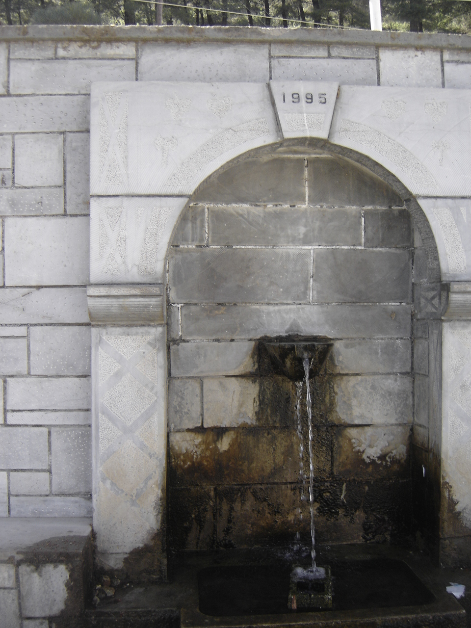 Α fountain in Kato Symi, Iraklion prefecture.